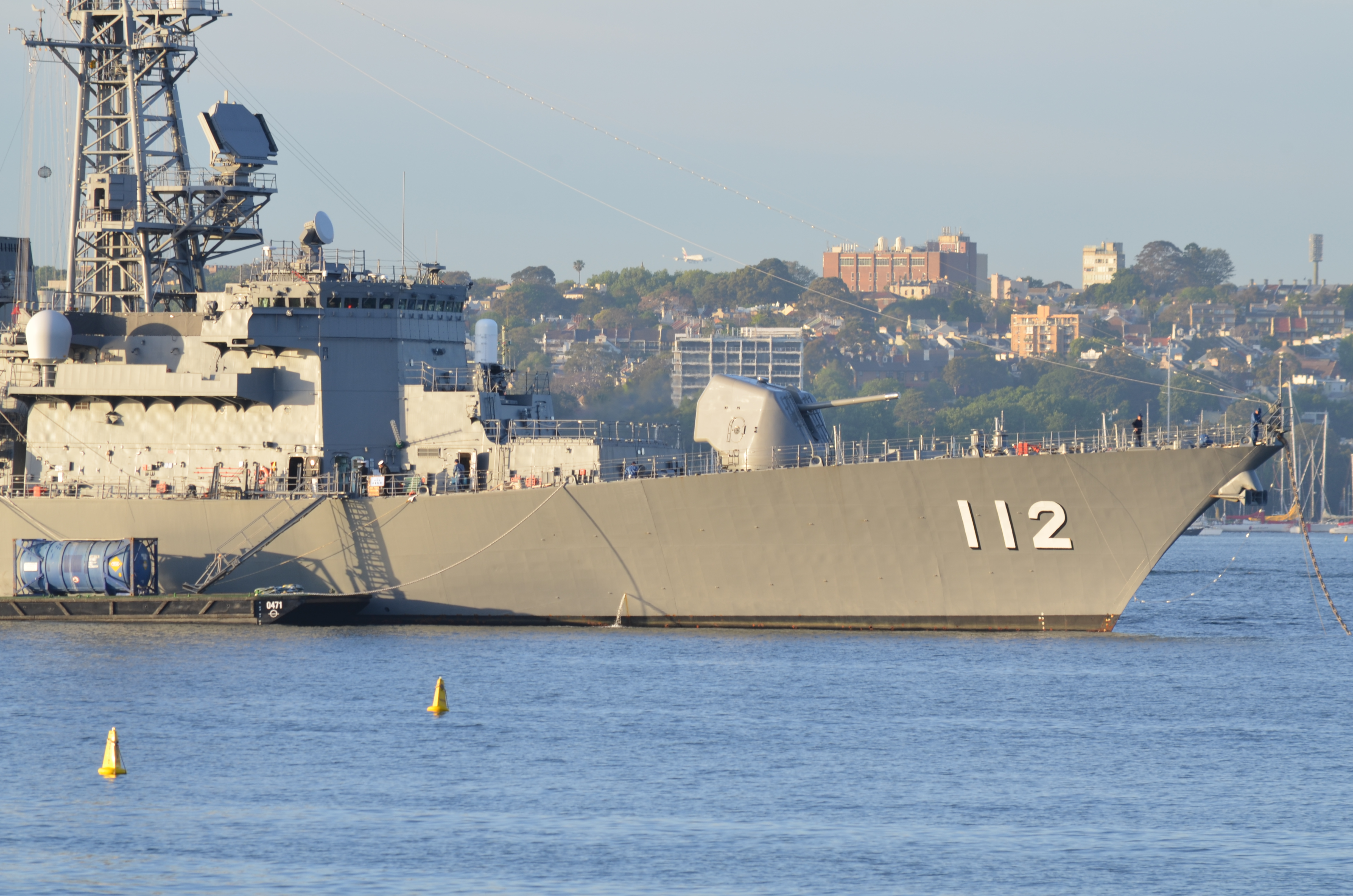 Photographs taken during day 3 of the Royal Australian Navy International Fleet Review 2013. Japanese destroyer Makinami moored in Sydney Harbour.